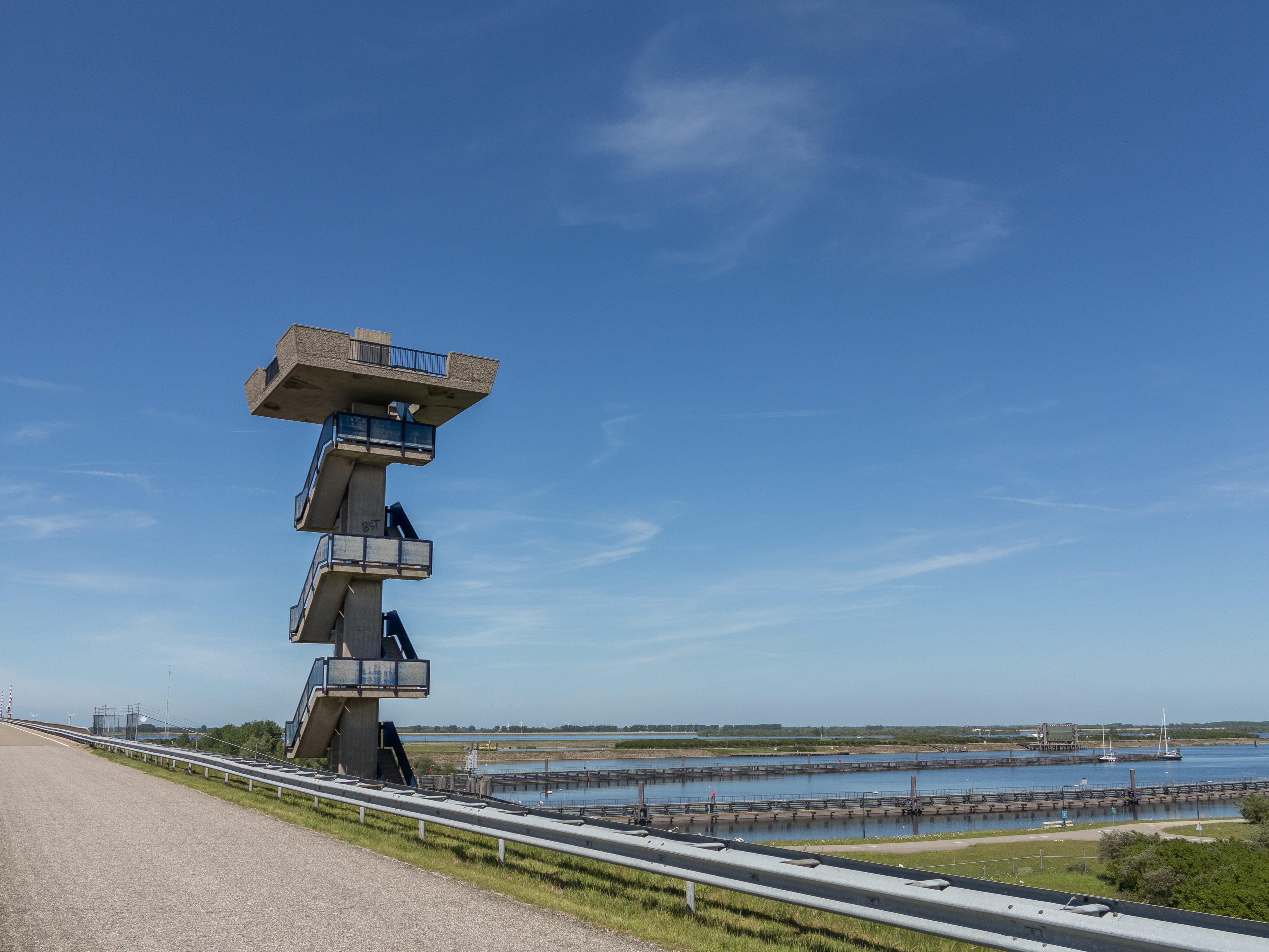 Philipsdam, sculpture near de Krammersluizen